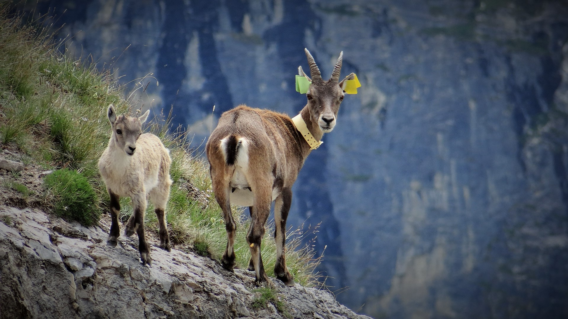 For more than 40 years, the managers of natural areas have needed to catch ibex for scientific monitoring and reintroduction purposes. Unmissable, the capture and marking of animals allows : - to measure individuals (biometric readings) and to take samples for analysis (genetics, serology, parasitology, coprology, etc.); identify animals by visual marking and / or collaring to obtain information on space use, movement corridors, survival and reproduction rates. This female ibex alpine, born in 2012 was marked in 2016 with a green right earring, a green left earring and a white collar in the Haute-Maurienne sector of the Vanoise National Park. It is pictured here in 2017 with her baby near the Saulces pass in July 2017. This animal has been named Houpette by the guards of the Vanoise National Park.